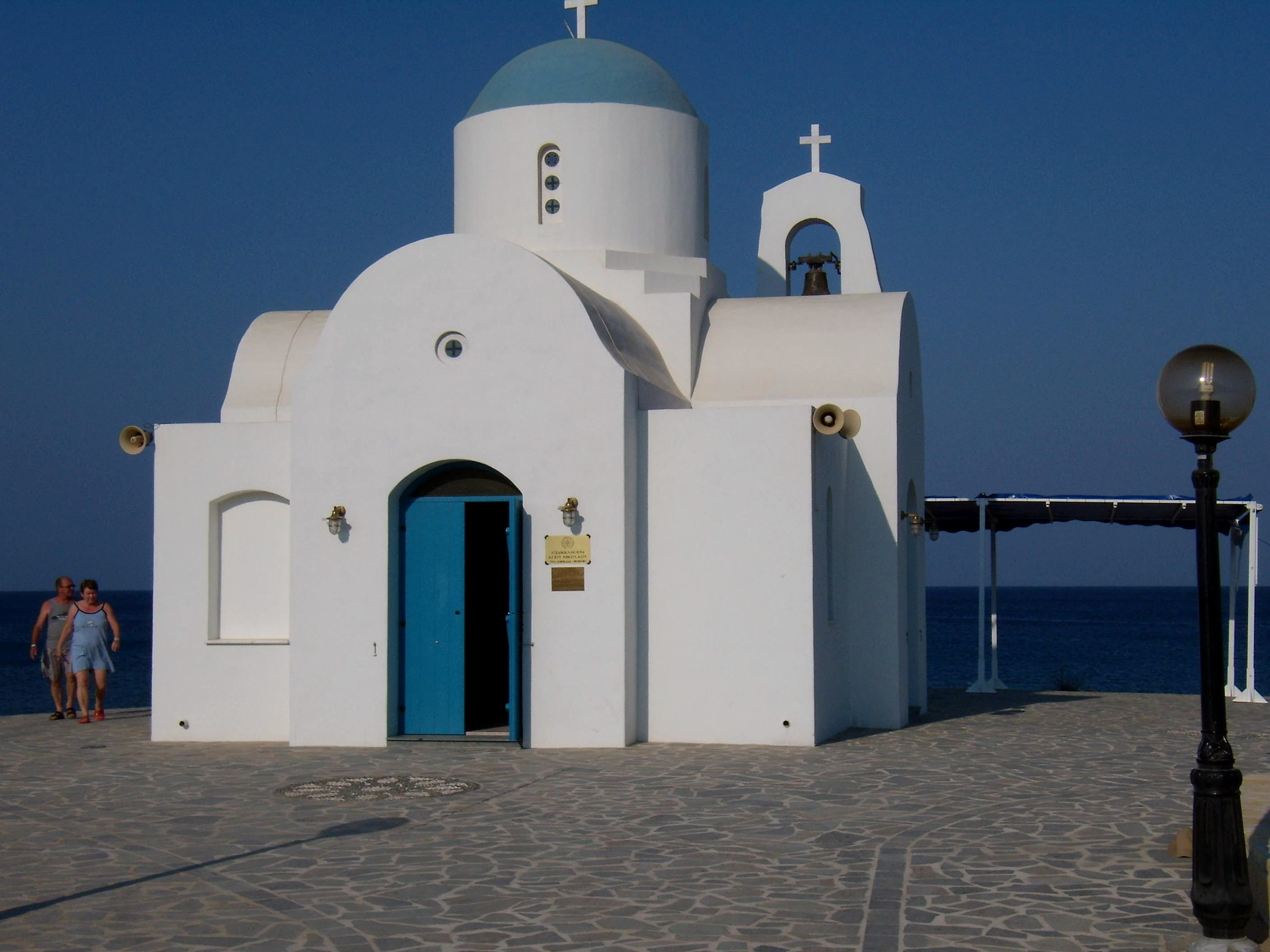 Image title: Church in Greece Image from Public domain images website